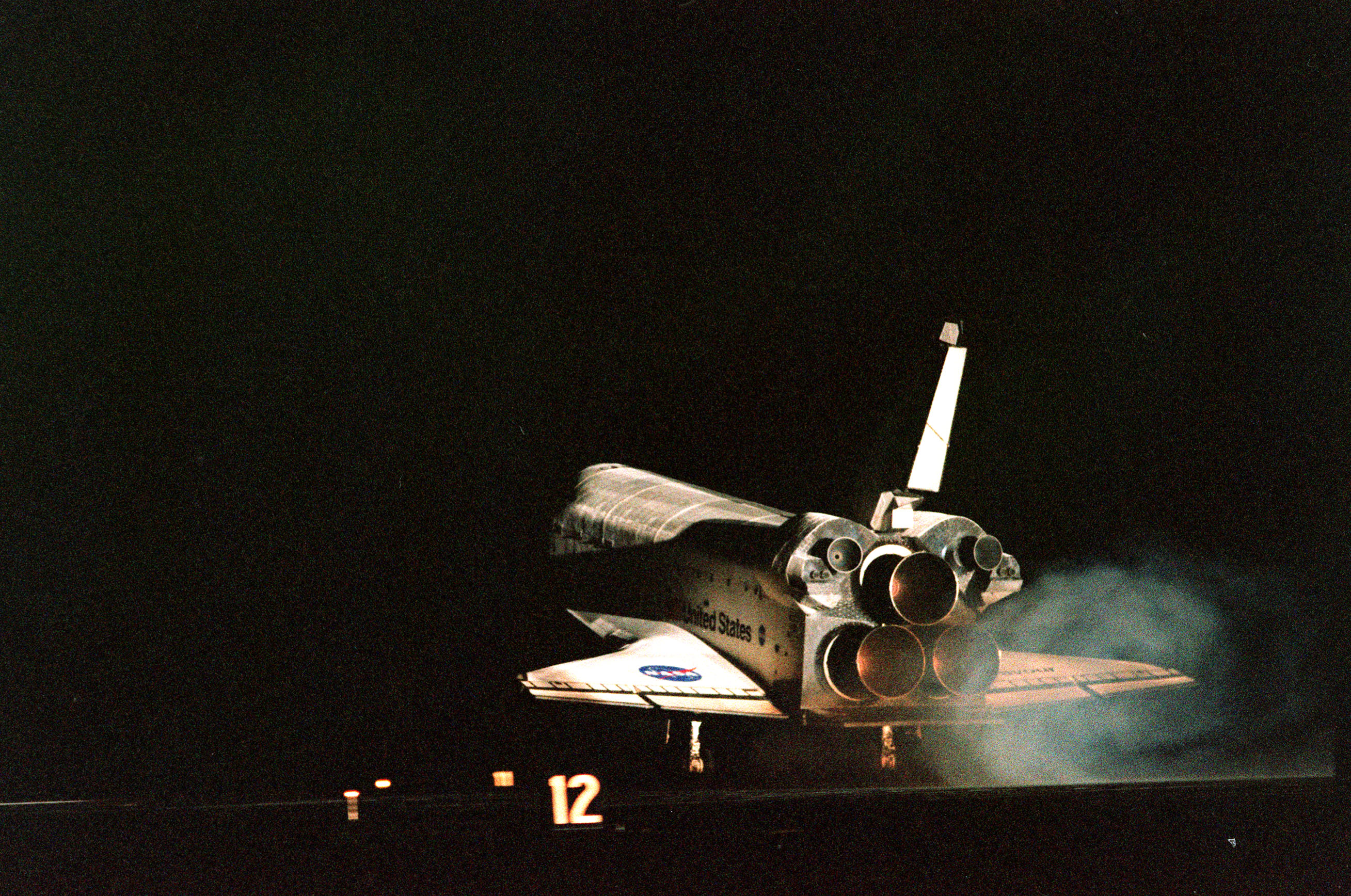 After a flawless mission, Endeavour touches down at 10:53:29 p.m. EST on Runway 15 at the Shuttle Landing Facility to complete an 11-day, 19-hour and 18-minute-long STS-88 mission. At the controls is Commander Robert D. Cabana. Other crew members on board are Pilot Frederick W. "Rick" Sturckow and Mission Specialists Jerry L. Ross, Nancy J. Currie, James H. Newman and Sergei Konstantinovich Krikalev, a Russian cosmonaut. This is the tenth nighttime landing for a Space Shuttle, the fifth at Kennedy Space Center, and the ninth landing of Endeavour at KSC. On the 4.6-million-mile mission, Endeavour carried the U.S.-built Unity connecting module to begin construction of the International Space Station. The crew successfully mated Unity with the Russian-built Zarya control module during three spacewalks. With this mission, Ross completed seven space walks totaling 44 hours and 9 minutes, more than any other American space walker. Newman moved into third place for U.S. space walks with a total of 28 hours and 27 minutes on four excursions.